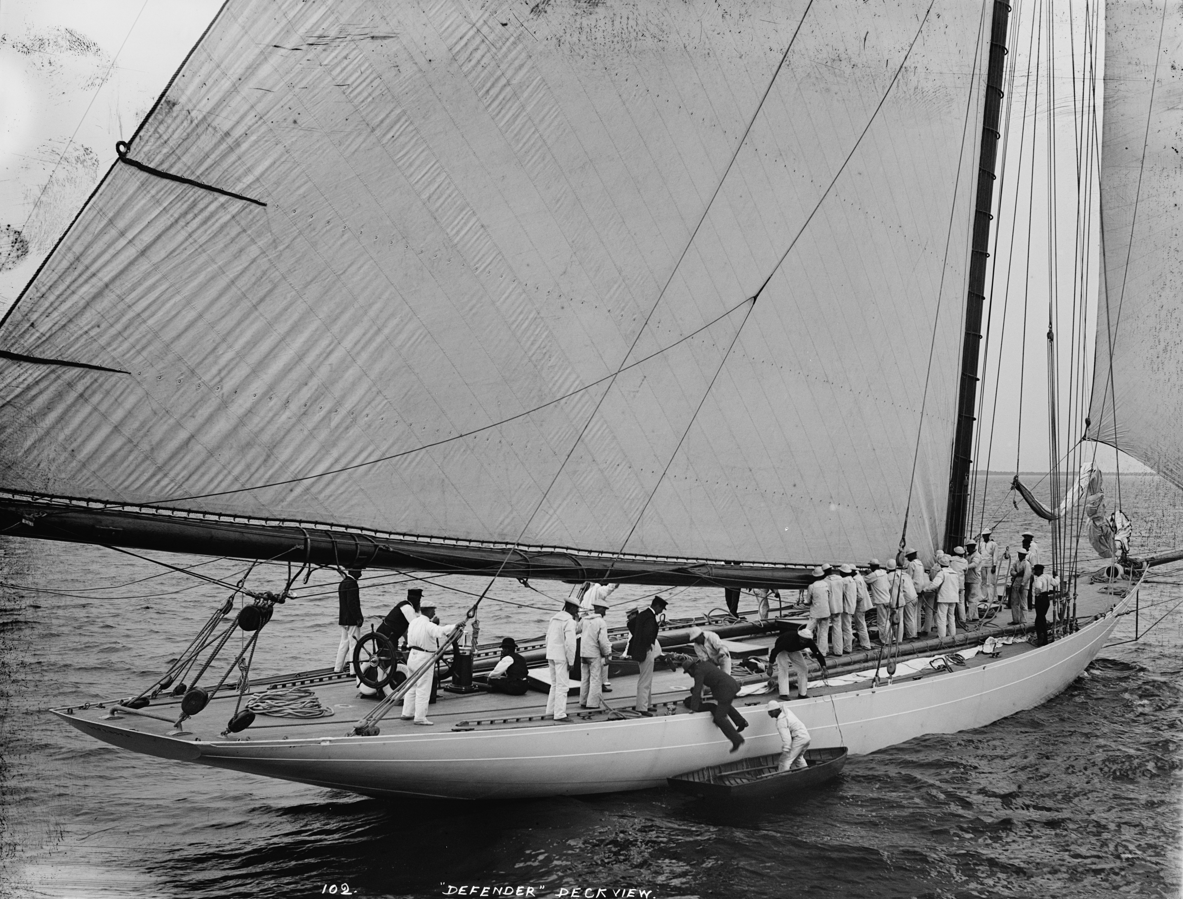 The sloop Defender, which won the 1895 America's Cup challenge. Her skipper and designer, Nathanael Greene Herreshoff, is climbing aboard.